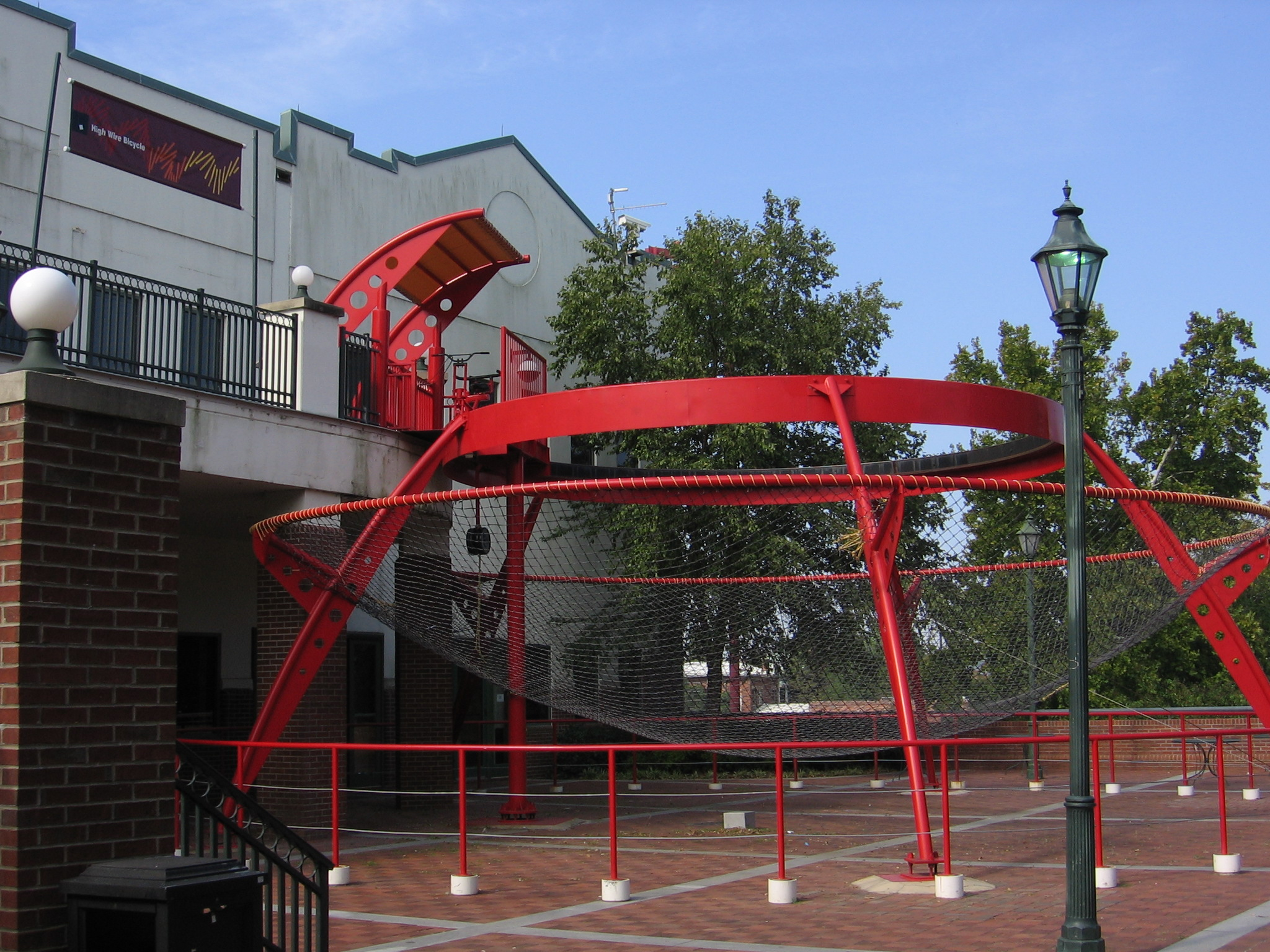 elevated cycle, outside Fort Discovery science museum, at Riverwalk Augusta (Augusta, Georgia, USA). Museum is located in a former short-lived (circa-1990) two-story shopping mall (The Shoppes at Port Royal)